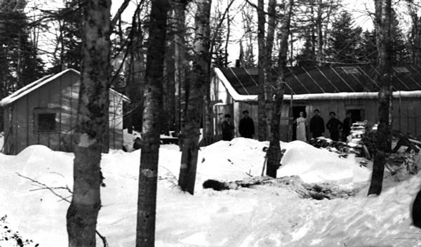 A gold mine in Nigadoo, New Brunswick in 1937.